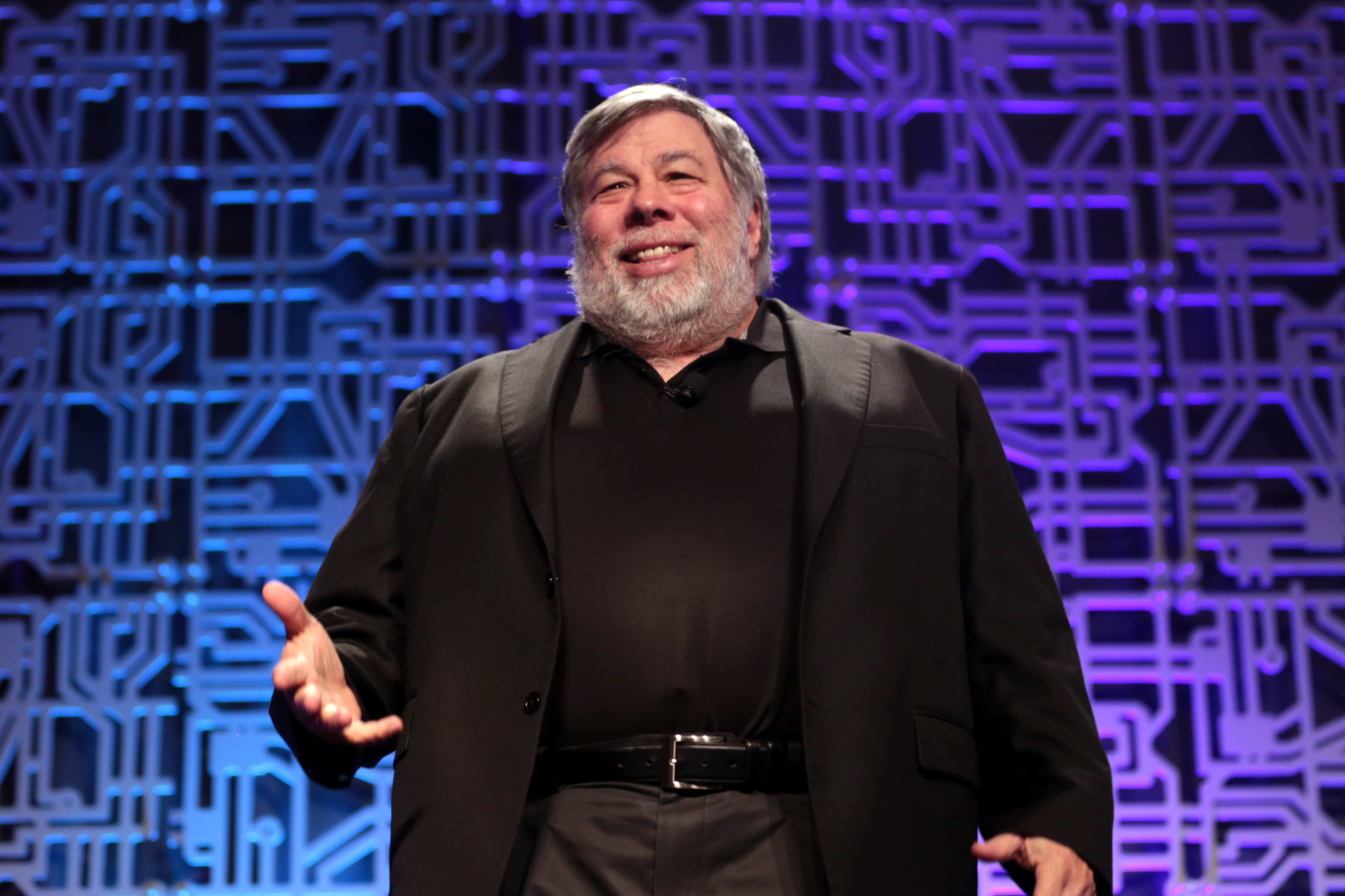 Steve Wozniak speaking with attendees at an event titled "An Evening of Innovation & Celebration" hosted by DestechAZ at the JW Marriott Scottsdale Camelback Inn Resort & Spa in Paradise Valley, Arizona.